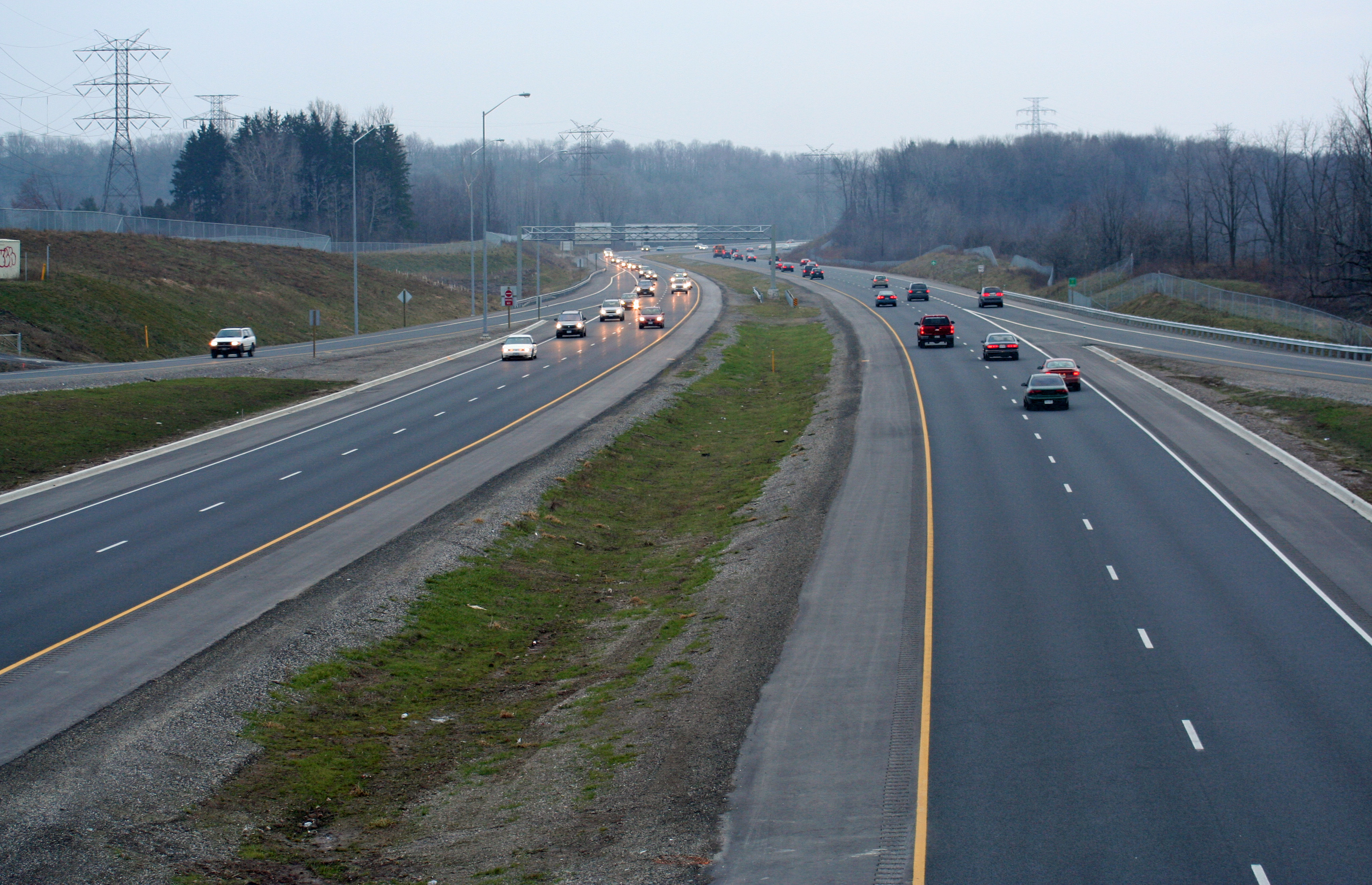 Red Hill Valley Parkway, Hamilton, Ontario, Canada; looking south from the Greenhill overpass.